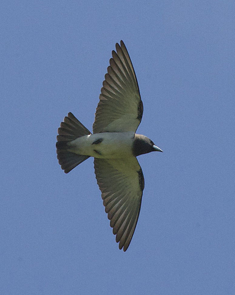 White-breasted Woodswallow (Artamus leucorynchus ssp Artamus leucorynchus amydrus) Golf course, Nusa Dua, Bali, Indonesia July 31st. 2010 690V6844